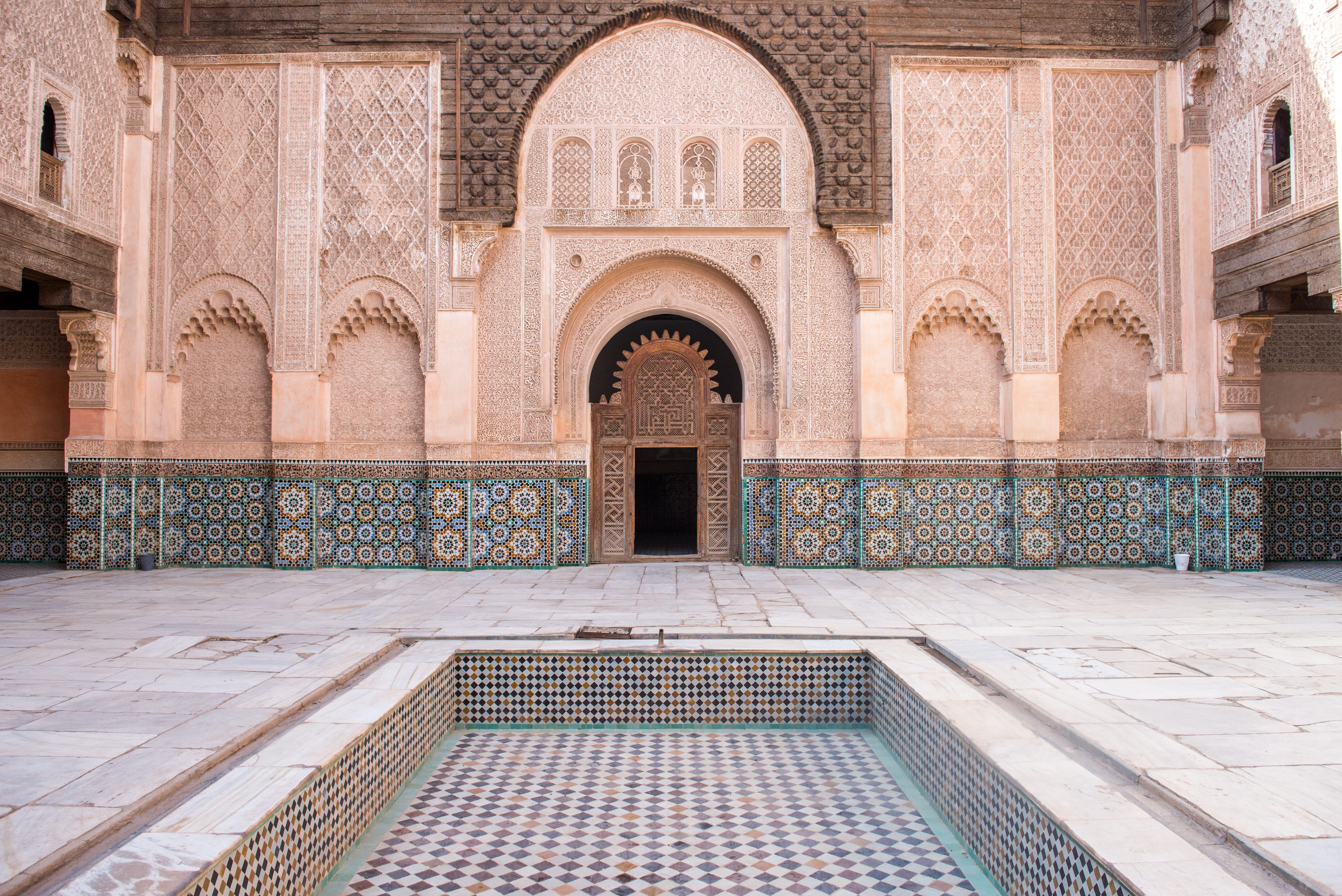 This is the Ben Youseff Madressa in Marrakech, Morocco. It was one of the largest theological colleges in North Africa and the biggest in Morocco. It was pretty much like a modern day dormitory, housing over 900 students to study at the allied Ben Youseff Mosque.